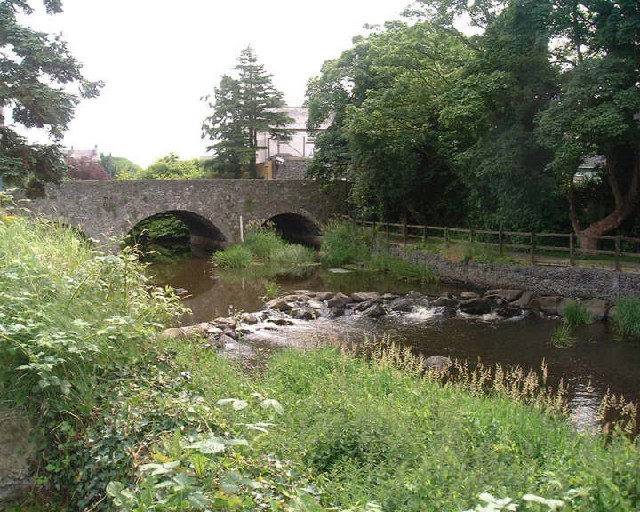 Bridge over the River Lagan at Dromore, Co. Down. Photograph taken from the grounds of Cromore Cathedral: for many years the main road from Belfast to Dublin used this bridge, prior to the construction of the town bypass.